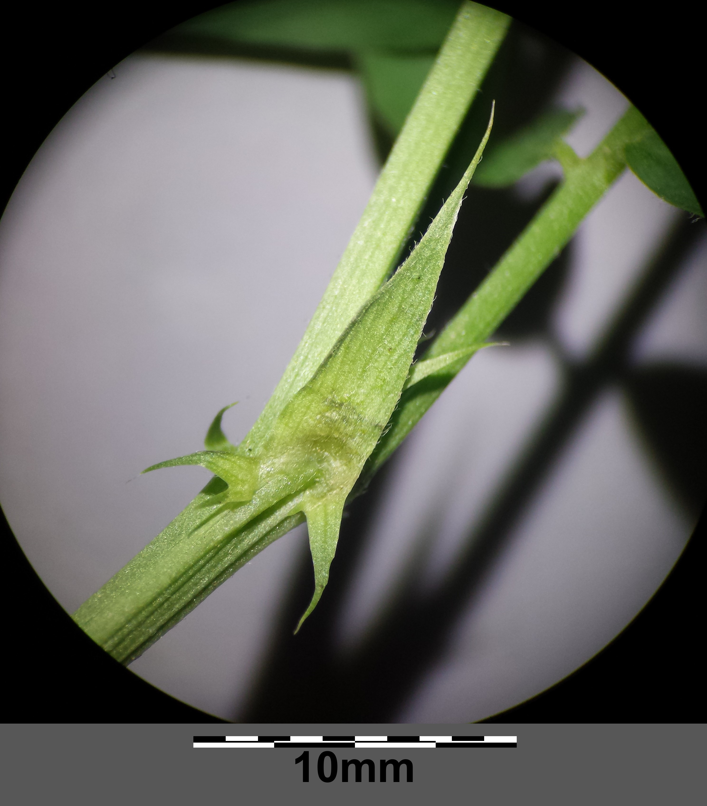 Stem with stipule Taxonym: Galega officinalis ss Fischer et al. EfÖLS 2008 ISBN 978-3-85474-187-9 Location: Senningbach next to Hatzenbach, district Korneuburg, Lower Austria - 190 m a.s.l. Habitat: slope of a stream